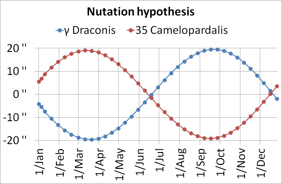 Hypothetical observation of γ Draconis and 35 Camelopardalis by James Bradley if their movements were caused by nutation. Had their movements been caused by nutation, 35 Camelopardalis would have moved in the same magnitude as γ Draconis.